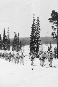 Swedish volunteers in the Finnish Winter War on a ski march.